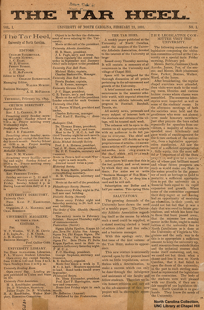 First issue of The [Daily] Tar Heel available from North Carolina Archives